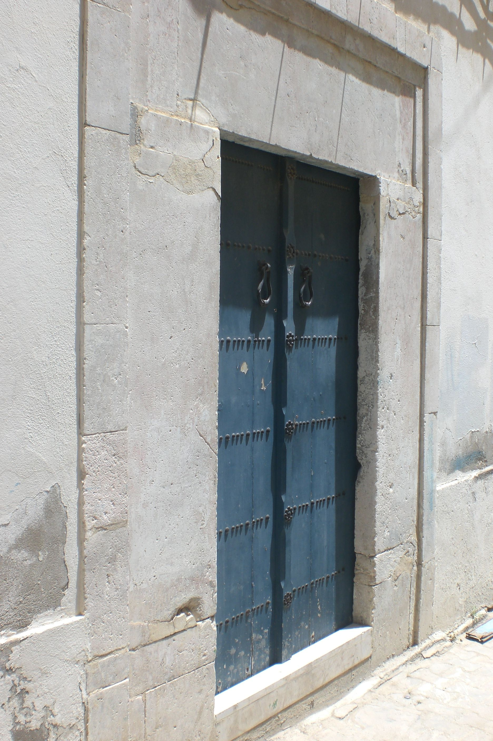 The ancient medersa called Hamzia Tunis